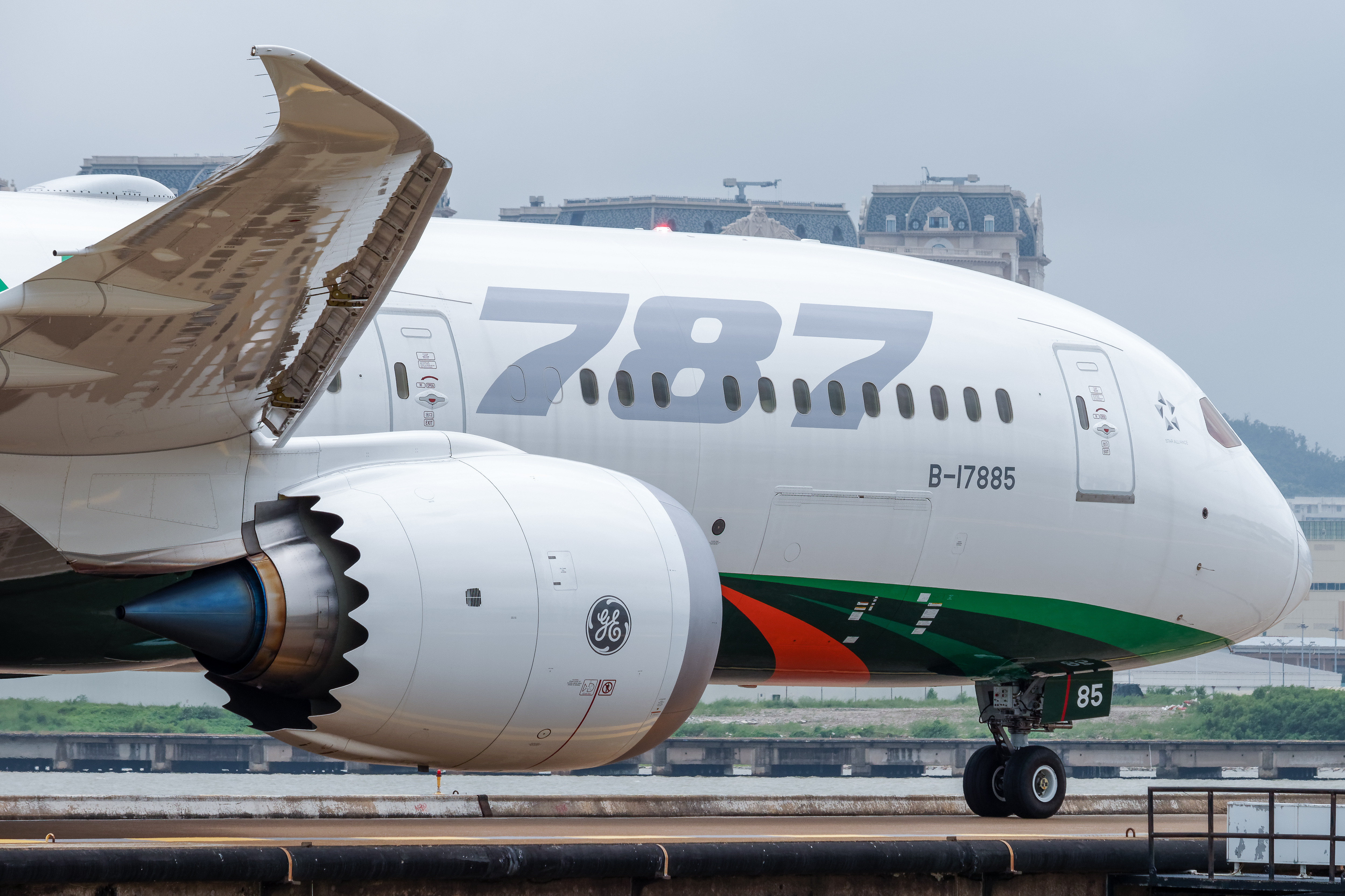 Eva Air Boeing 787-9 B-17885